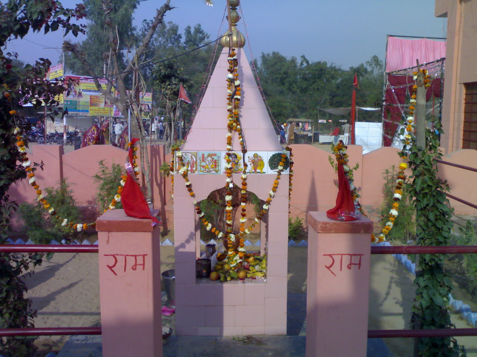 You can see small Shiwa temple at Rojhri Dham temple complex.This photo is created by me(user:Shemaroo aka Sivender Singh, ) Shemaroo (talk) 03:50, 4 March 2011 (UTC)